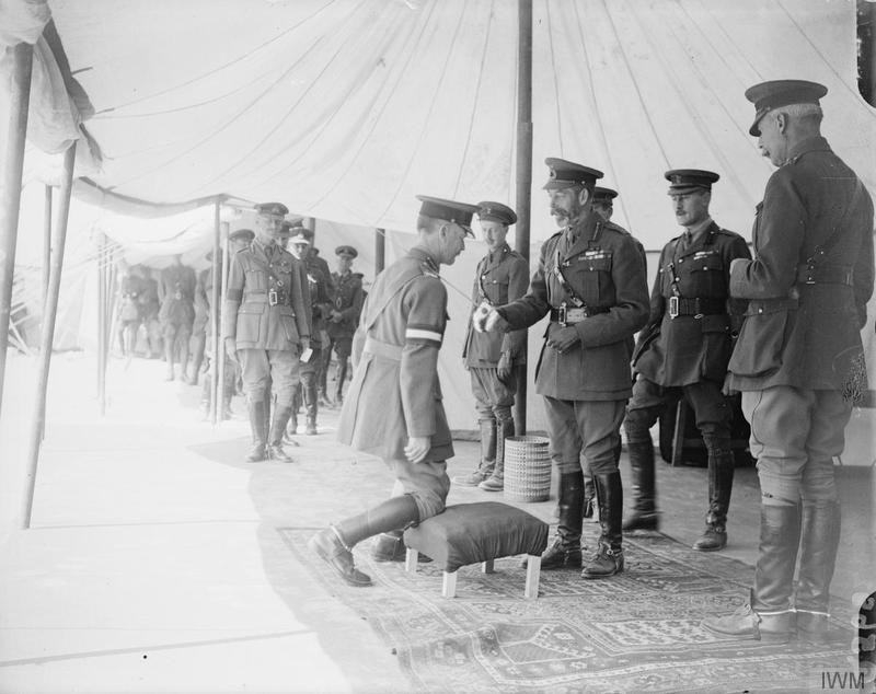 The Royal Visits To the Western Front, 1914-1918 King George V conferring the honour of Knighthood to Lieutenant General Sir Robert Fanshawe, Albert, 12 July 1917.